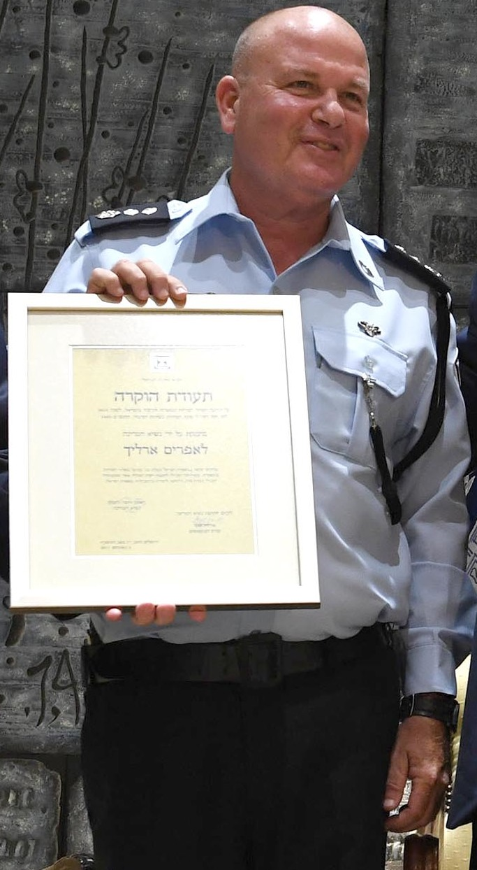 Awarding ceremony of certificates of appreciation for the contribution to integrity in public institutions in Israel. Beit HaNassi, Wednesday, August 9, 2017. Photo Credit: Mark Neyman / GPO.